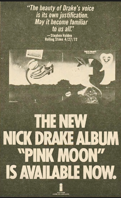 Image of a full page advertisement of Pink Moon album release.